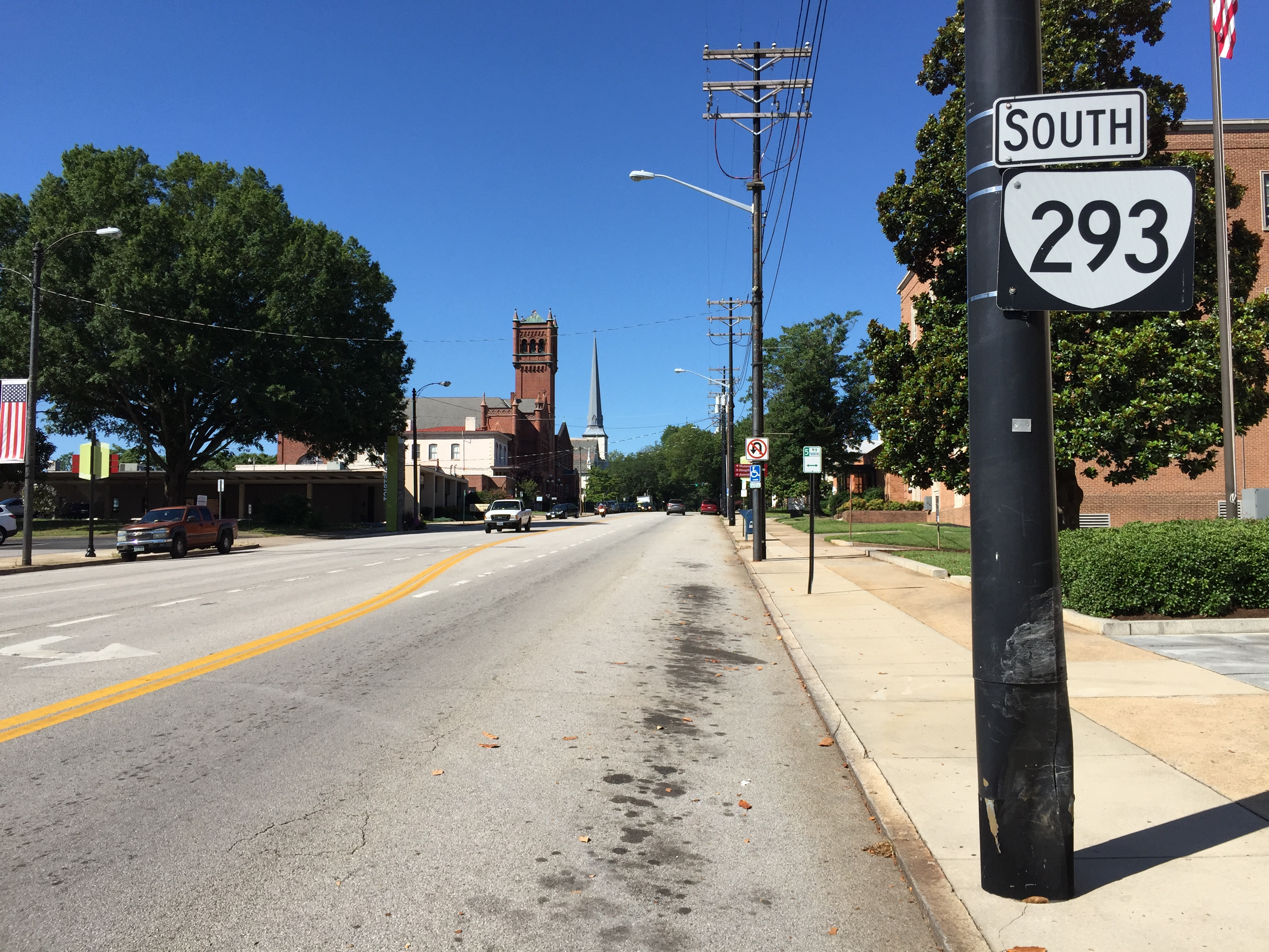 View south along Virginia State Route 293 (Main Street) at Ridge Street in Danville, Virginia